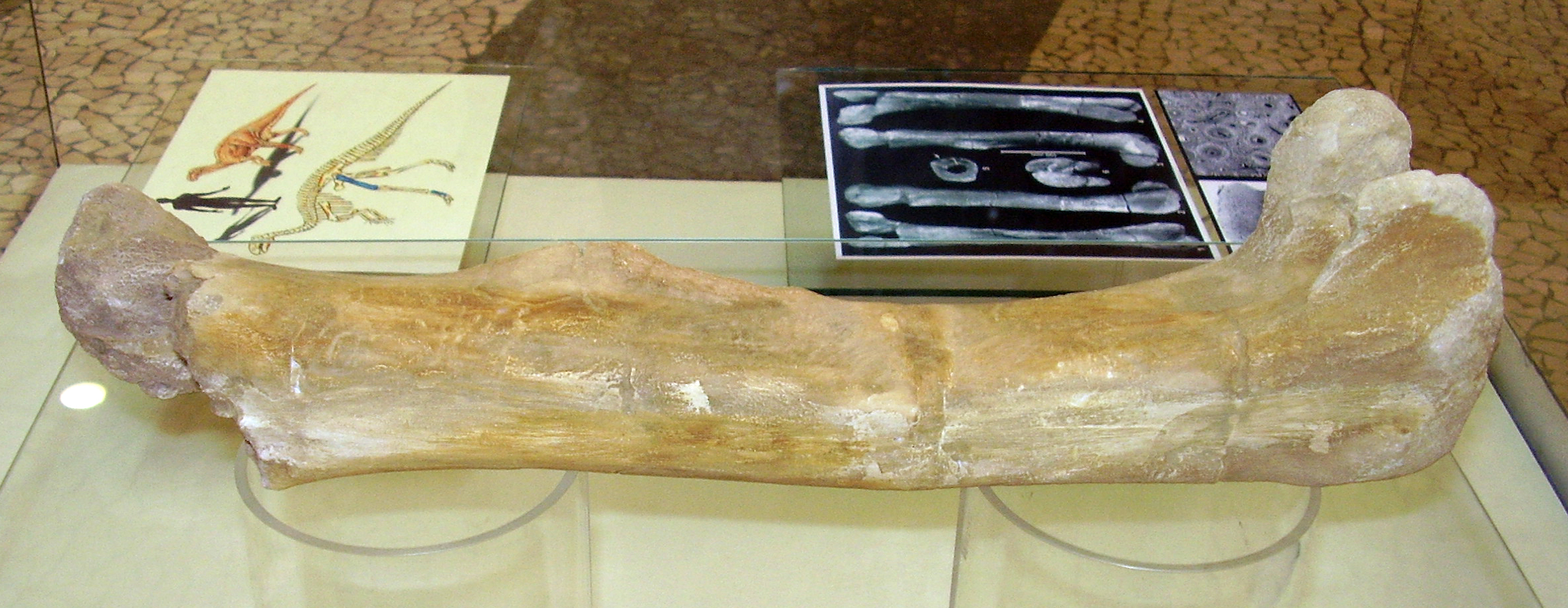 Left femur of czech ornithopod dinosaur Burianosaurus augustai, found in 2003 near Kutná Hora.